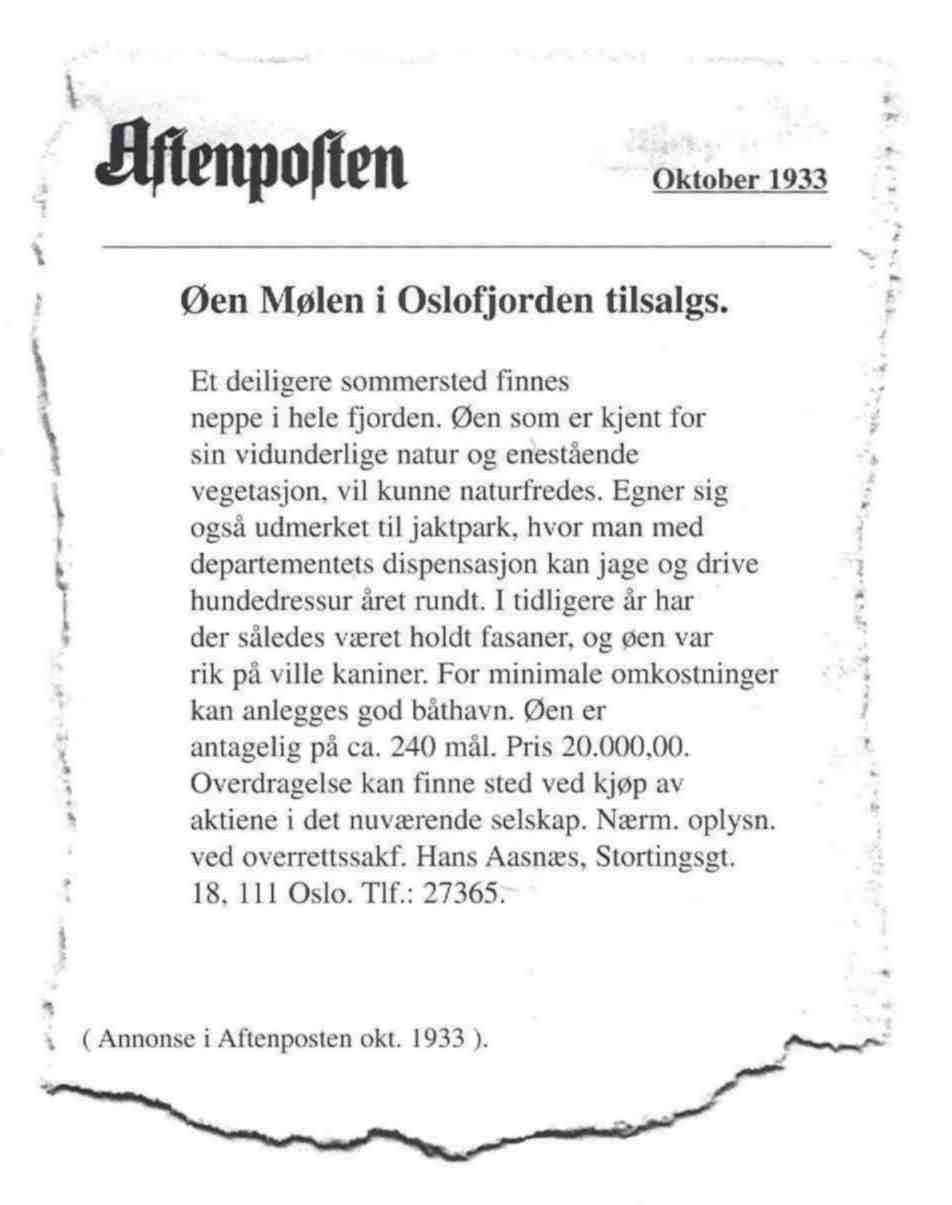 Annonse fra Aftenposten 1933, Mølen til salgs.